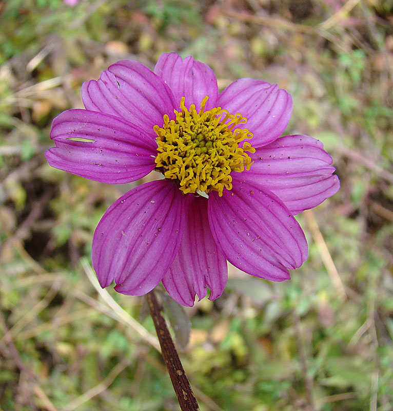 The beauty queen of the Bidens genus. Native to Central Mexico. UC Berkeley Botanical Gardens. In context at